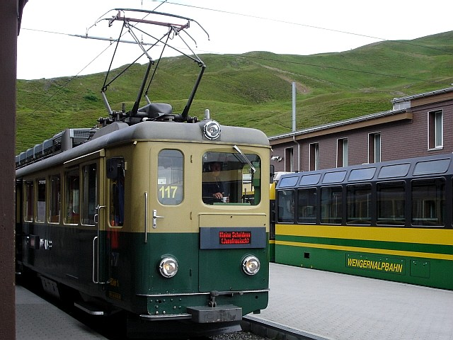 Kleine Scheidegg